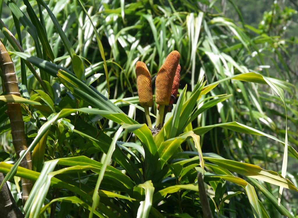 Freycinetia formosana (Pandanaceae). Iriomote Island, Okinawa prefecture, Japan. Japanese name: Turuadan ：ツルアダン Date;2009-08-10 Author;Keisotyo